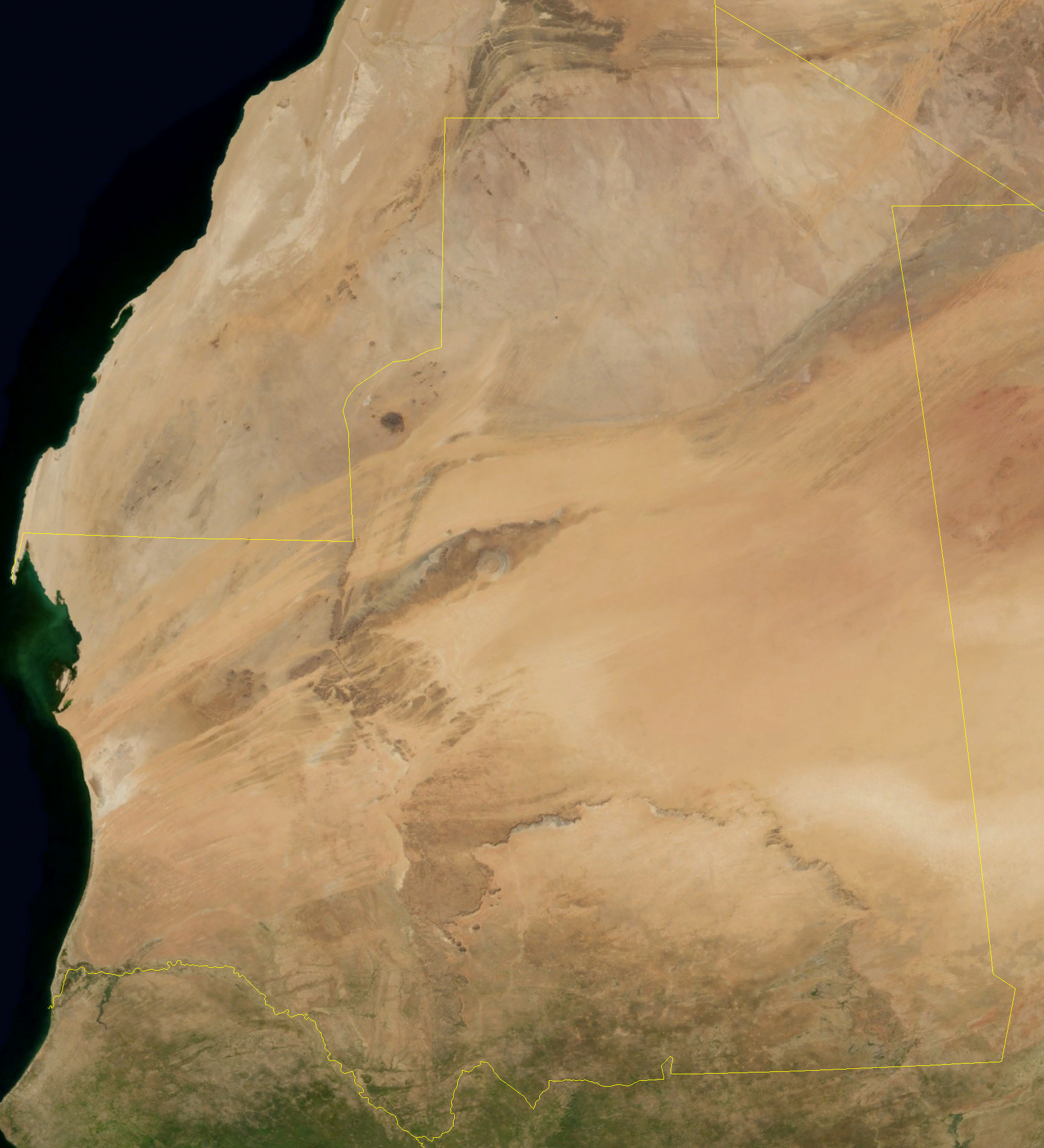 Satellite image of Mauritania September 2004. Blue Marble Next-Generation image.